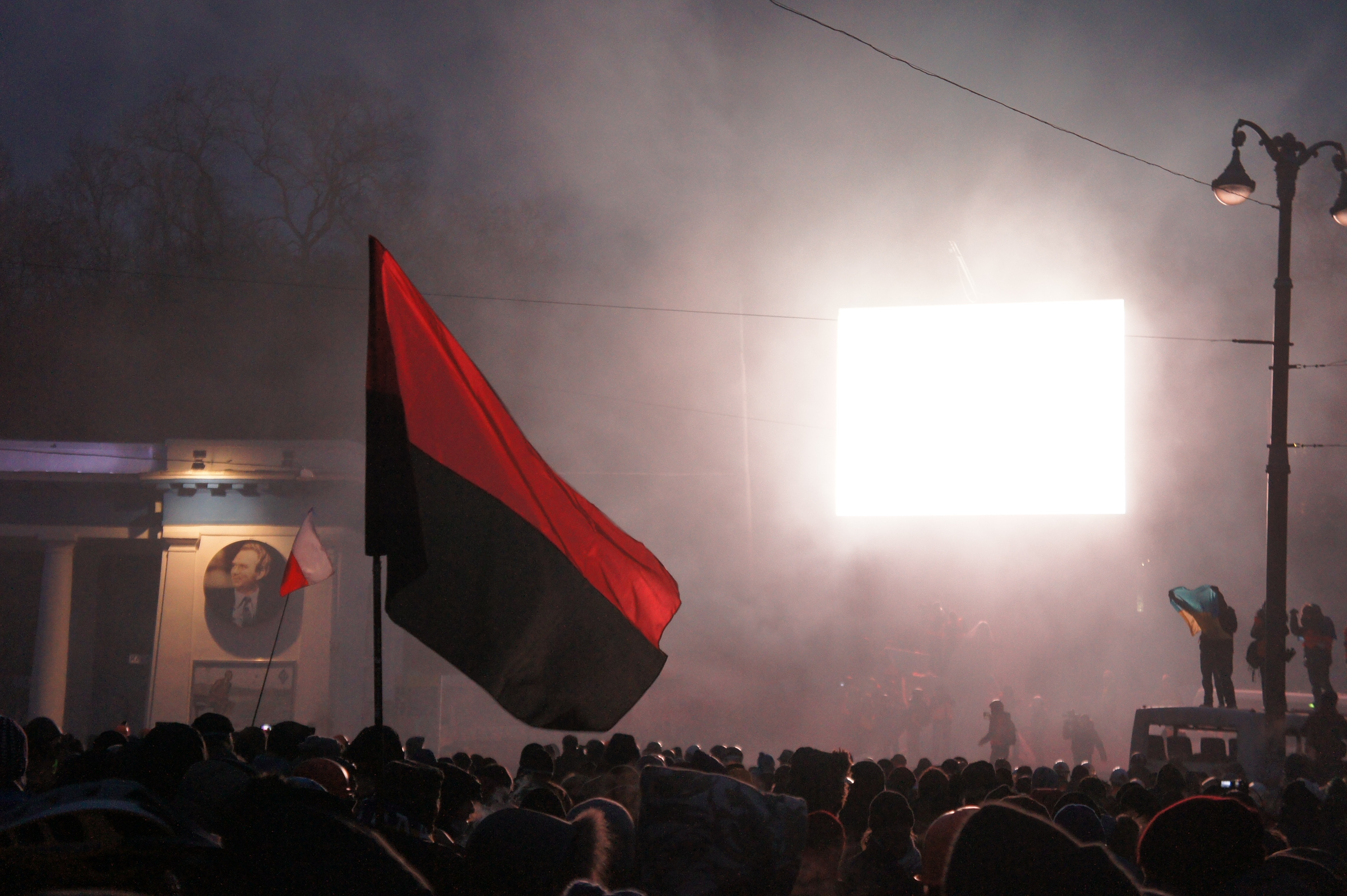 Clashes with police on Hrushevskoho street in Kiev, January 19, 2014.